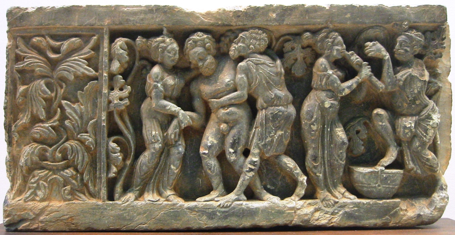 Bacchanalian scene, representing the harvest of wine grapes and a drunken Dionysos, Greco-Buddhist art of Gandhara, 1st-2nd century CE.Exhibition: Sculpture of China, India and Gandhara, Tokyo National Museum : April 5 - October 16, 2005. Personal photograph 2005.